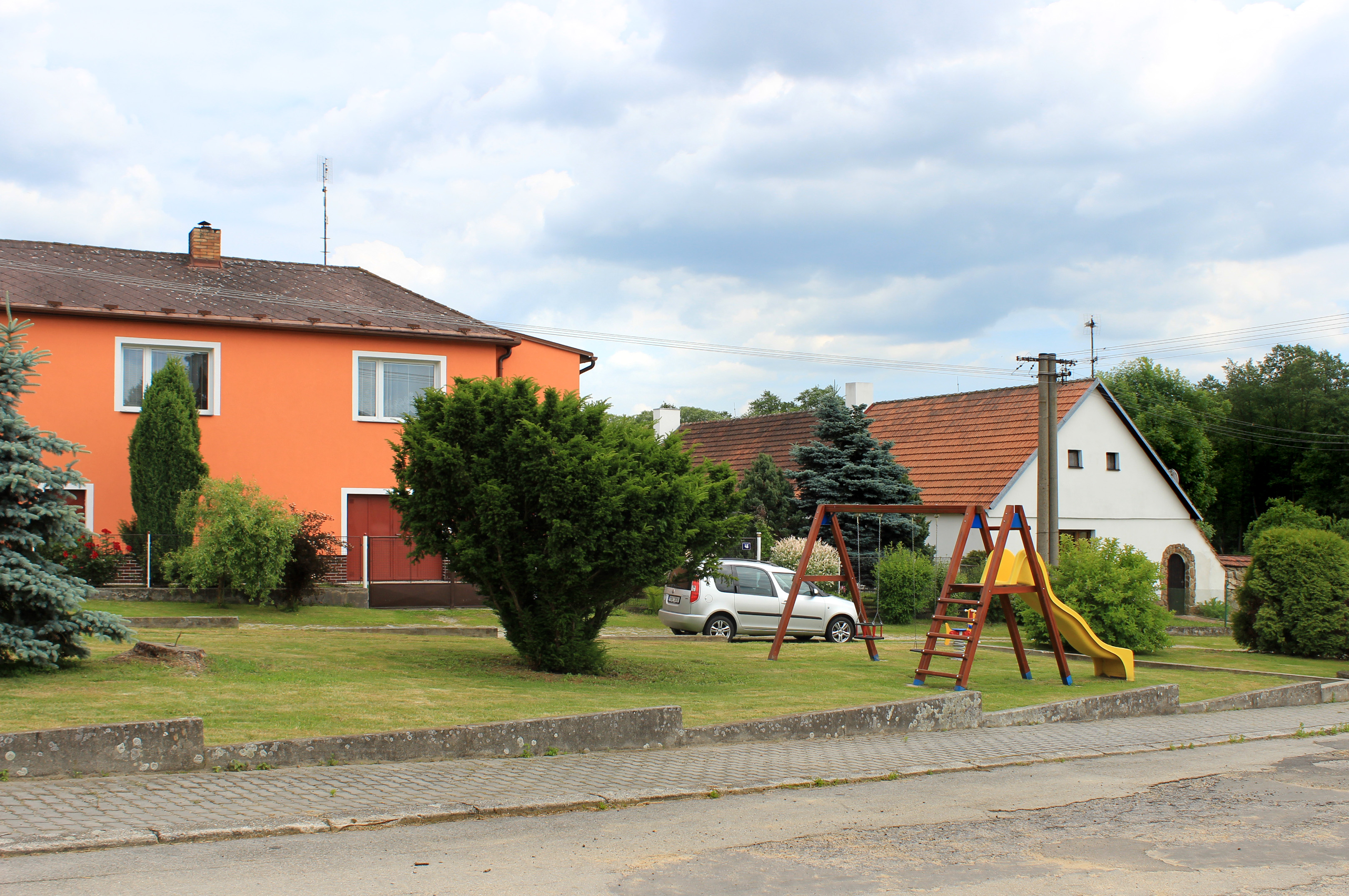 Common in Rosička, Czech Republic.